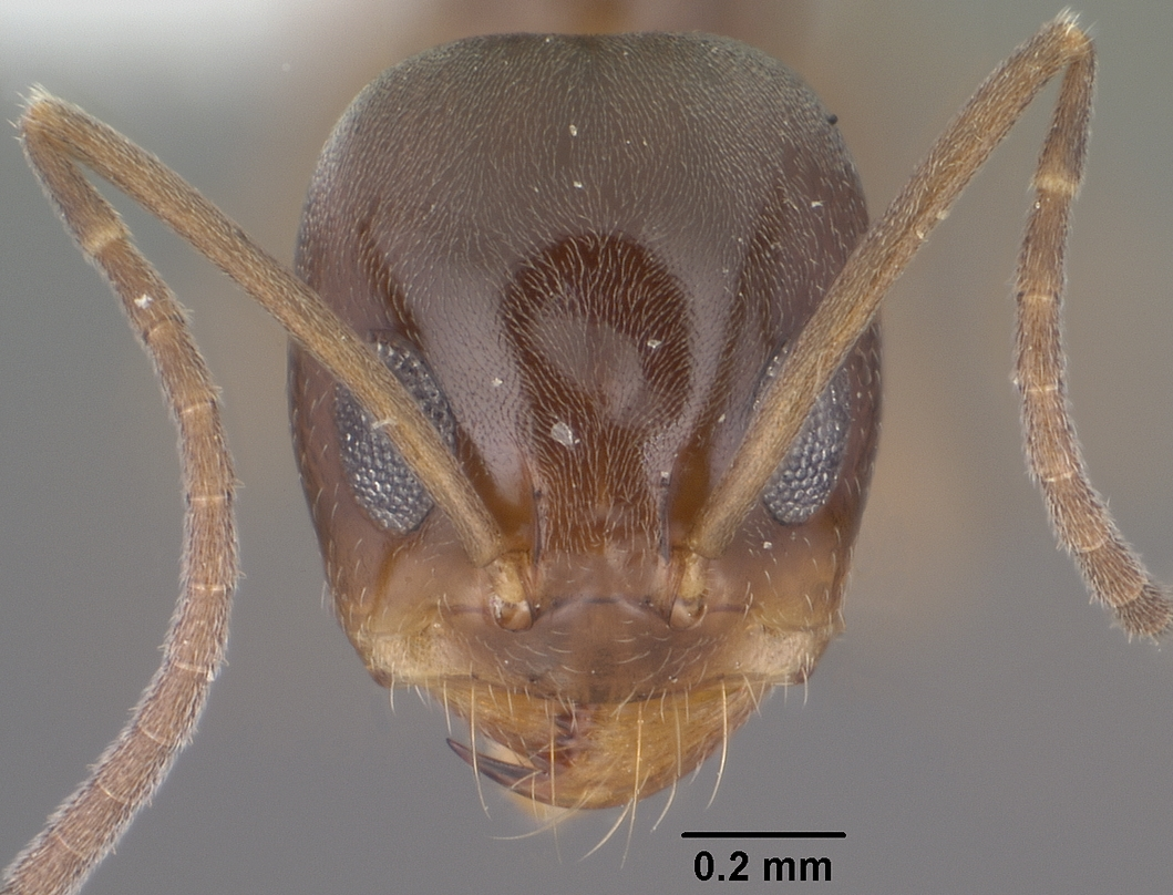 Head view of ant Dorymyrmex insanus specimen casent0102753.